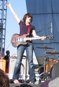 Carrie Brownstein of the band Sleater-Kinney, performing at Vegoose in 2005.